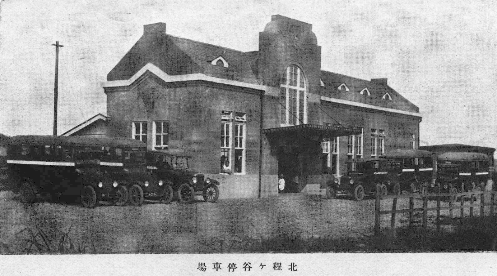 Kita-Hodogaya Station on the Jinchu Railway Co.,Ltd. around 1927. Currently Hoshikawa Station on the Sagami Railway Co.,Ltd.